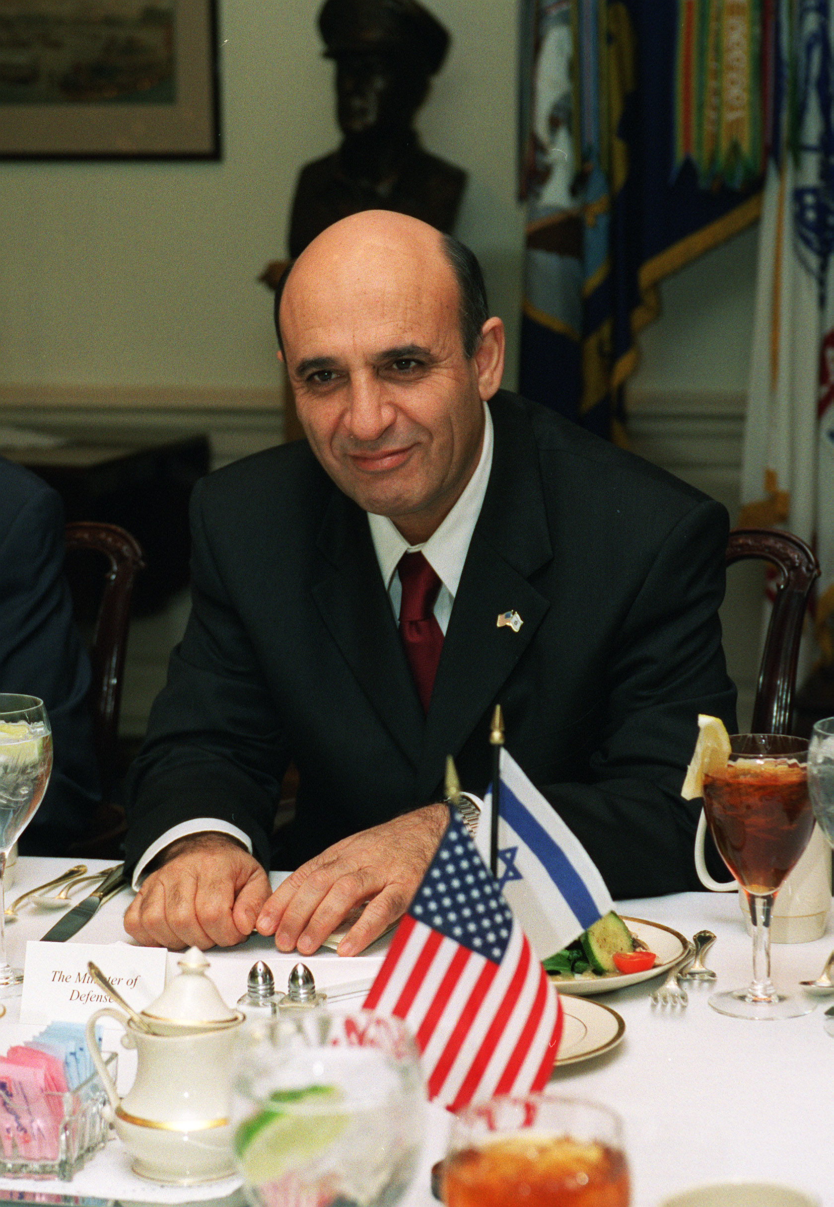 Israeli Minister of Defense Shaul Mofaz meets with Secretary of Defense Donald H. Rumsfeld at the Pentagon on Dec. 17, 2002. The two leaders are meeting to discuss defense issues of mutual interest.